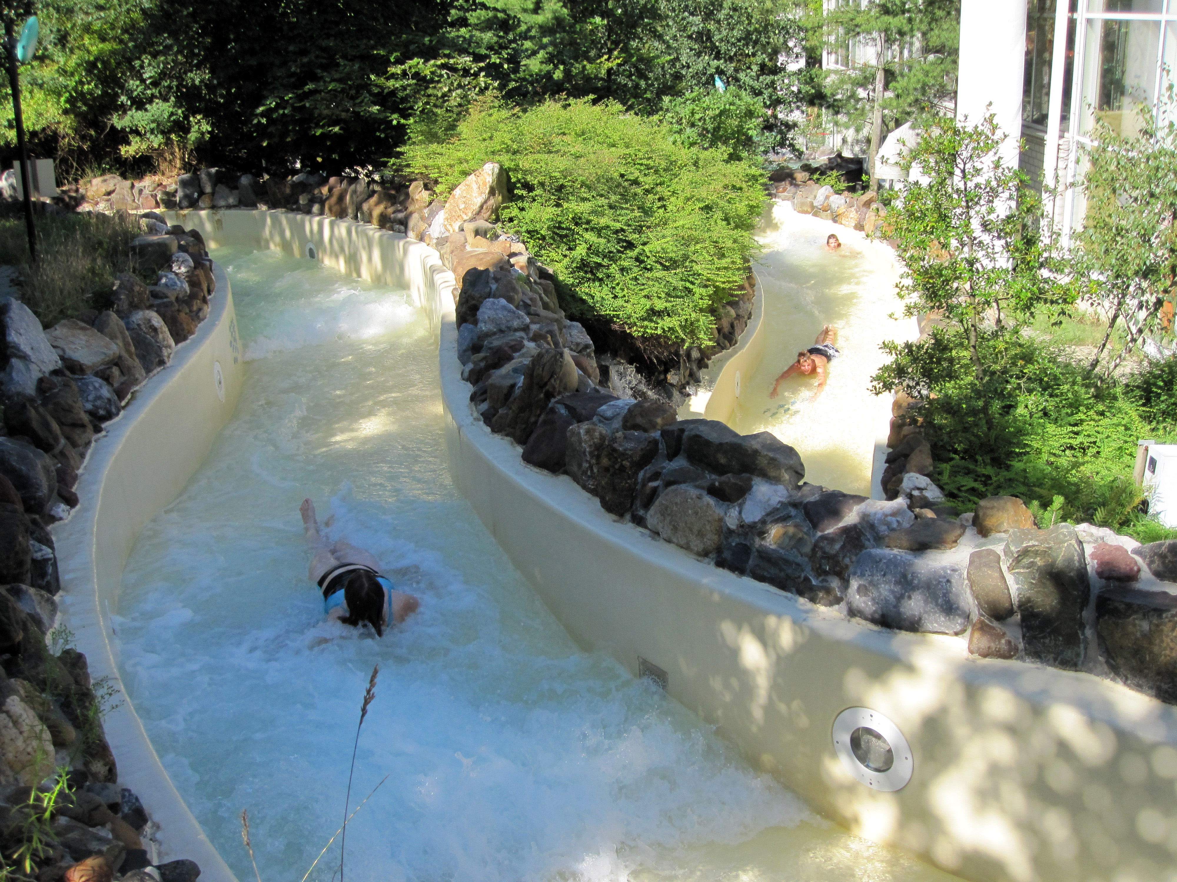 Wild water track in Erperheide (Centerpracs Belgium)